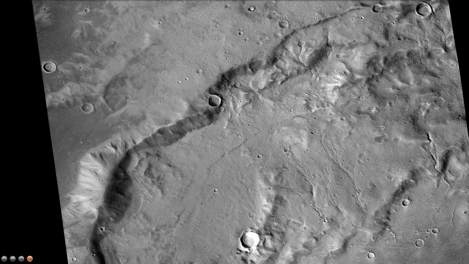 Enlargement of western side of Focas Crater showing small channels, as seen by CTX